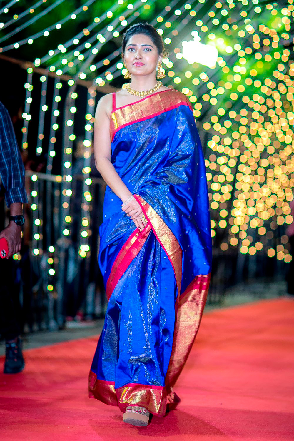 Vani Bhojan at the 'Zee Cine Awards'